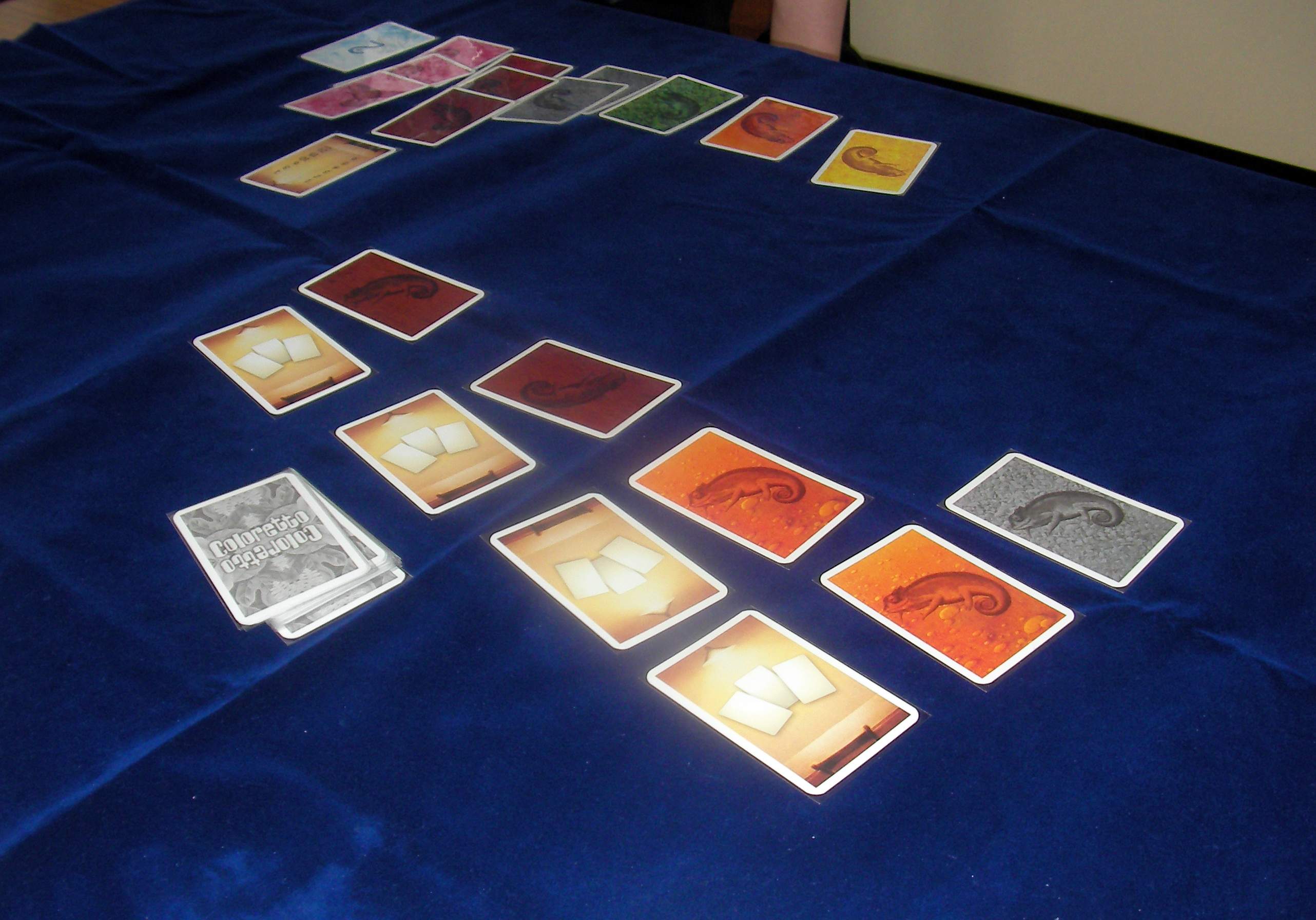 Playing Coloretto in Kawagoe, Saitama, Japan.